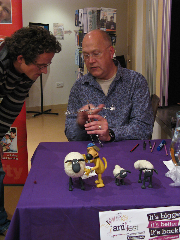 Richard Goleszowski (or 'Golly') examines a rig from Animation Supplies.